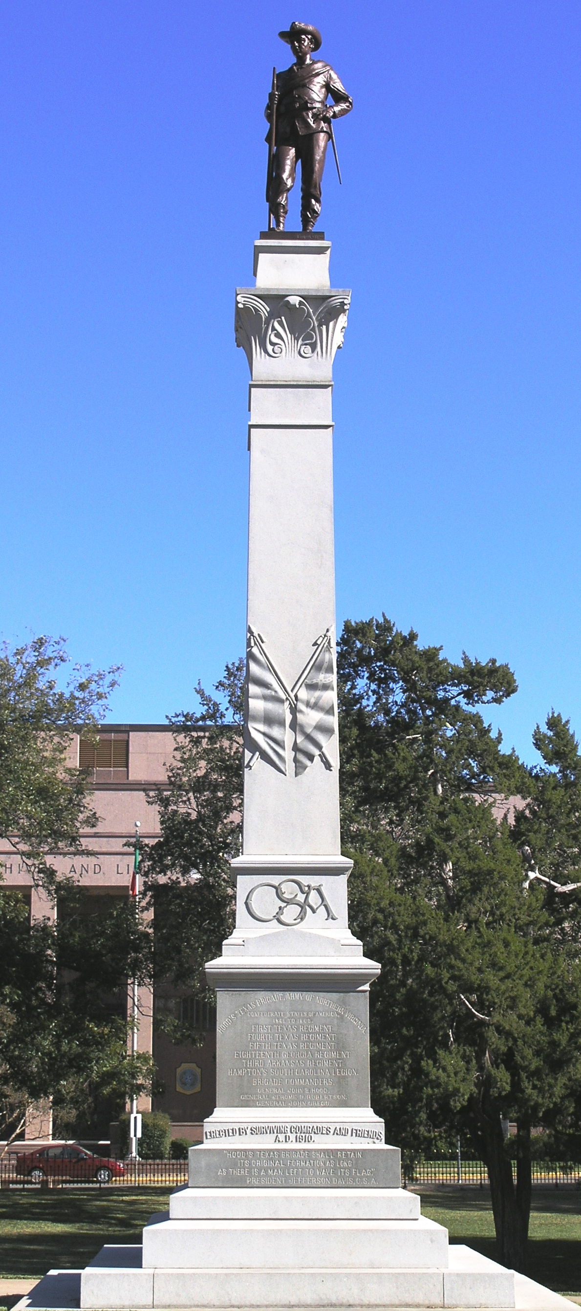 Image of Austin, Texas